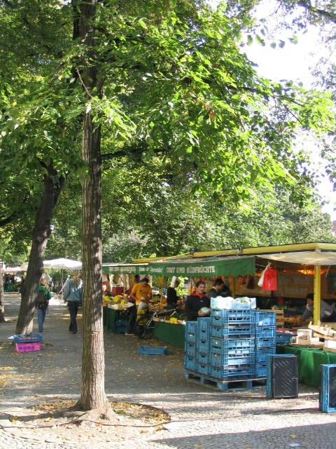 Description: Boxhagener Platz market in Friedrichshain, Berlin. Source: self-made. I release it into the public domain.